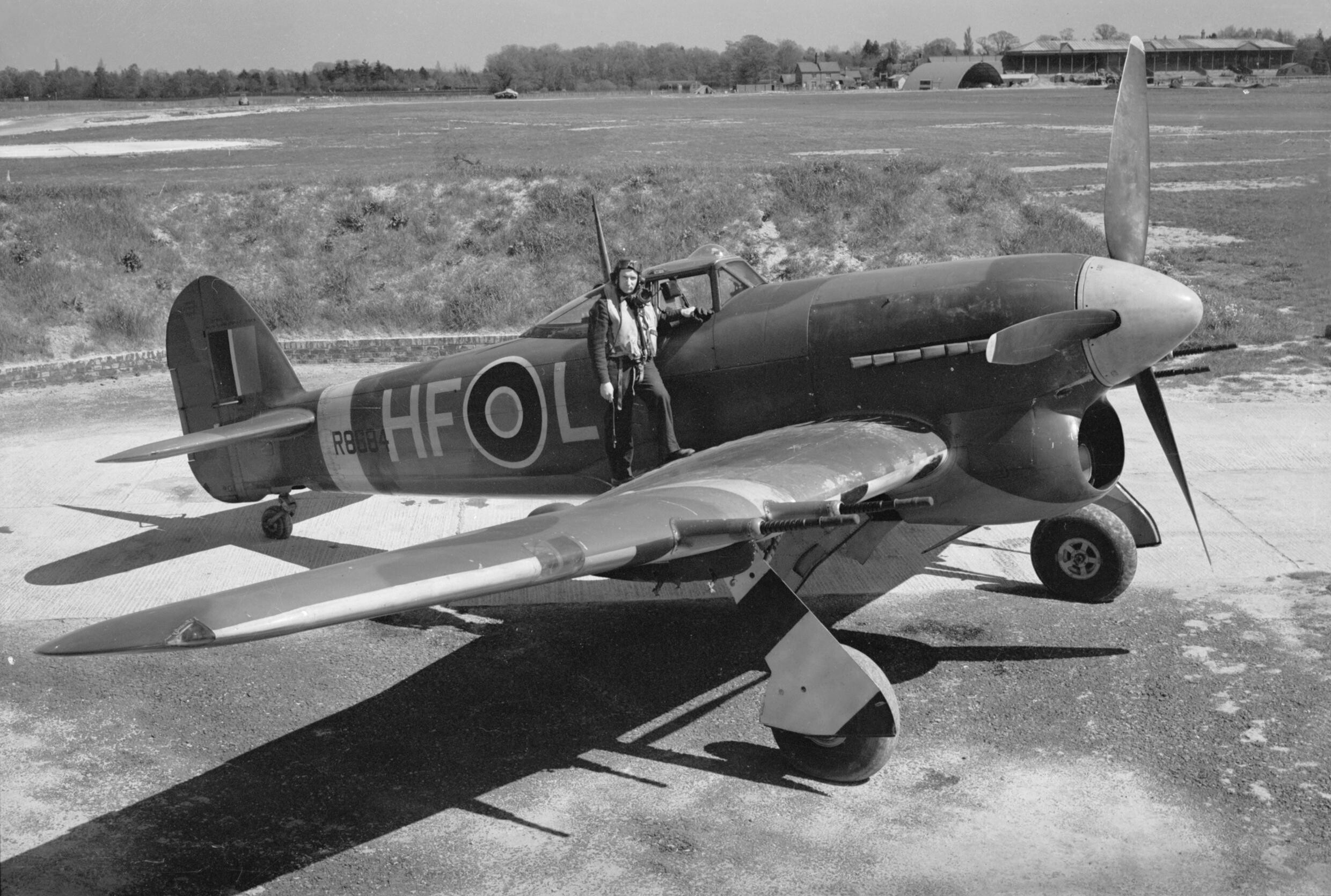 Aircraft of the Royal Air Force 1939-1945- Hawker Typhoon. Flight Lieutenant Walter Dring, commander of ‘B’ Flight, No. 183 Squadron RAF, with his Typhoon Mark IB, R8884 ‘HF-L’, in a dispersal at Gatwick, Sussex.